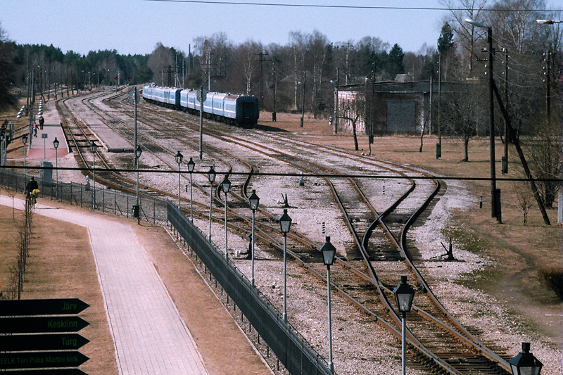 Türi train station